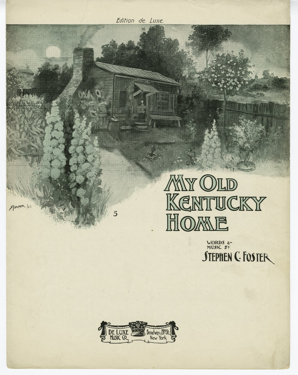 "My Old Kentucky Home" (sheet music) Page 1 of 5